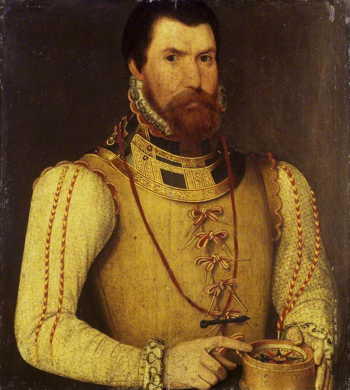 Portrait of Edward Fiennes de Clinton, Lord High Admiral and later 1st Earl of Lincoln, wearing an arming doublet and holding a compass.